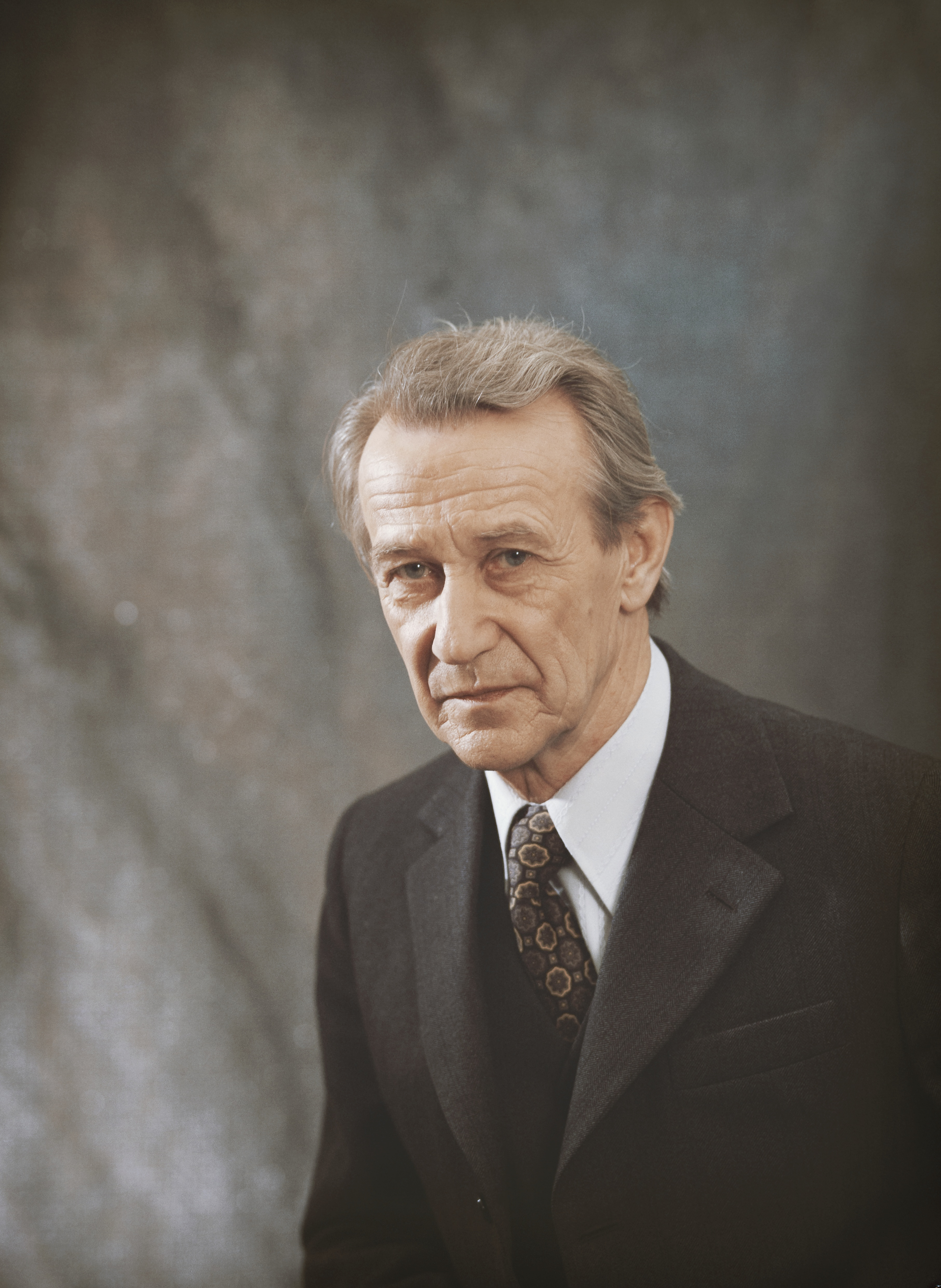 Photograph of the Finnish forester Esko Kangas (1906–1992).